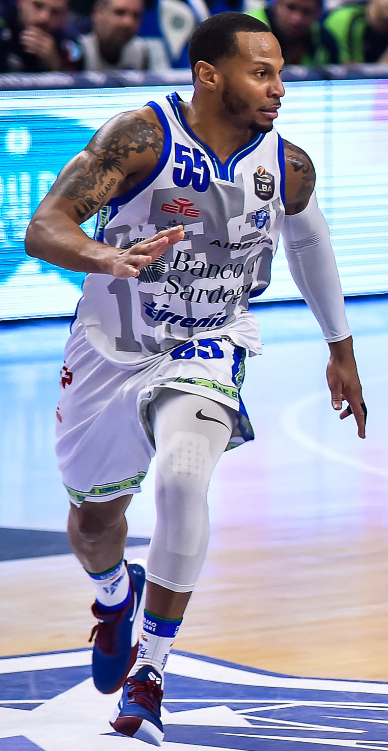 Blackmon James Banco di Sardegna Dinamo Sassari - Dolomiti Energia Trentino LegaBasket Serie A LBA Poste Mobile 2019/2020 Sassari 25/01/2020 Foto Ciamillo-Castoria